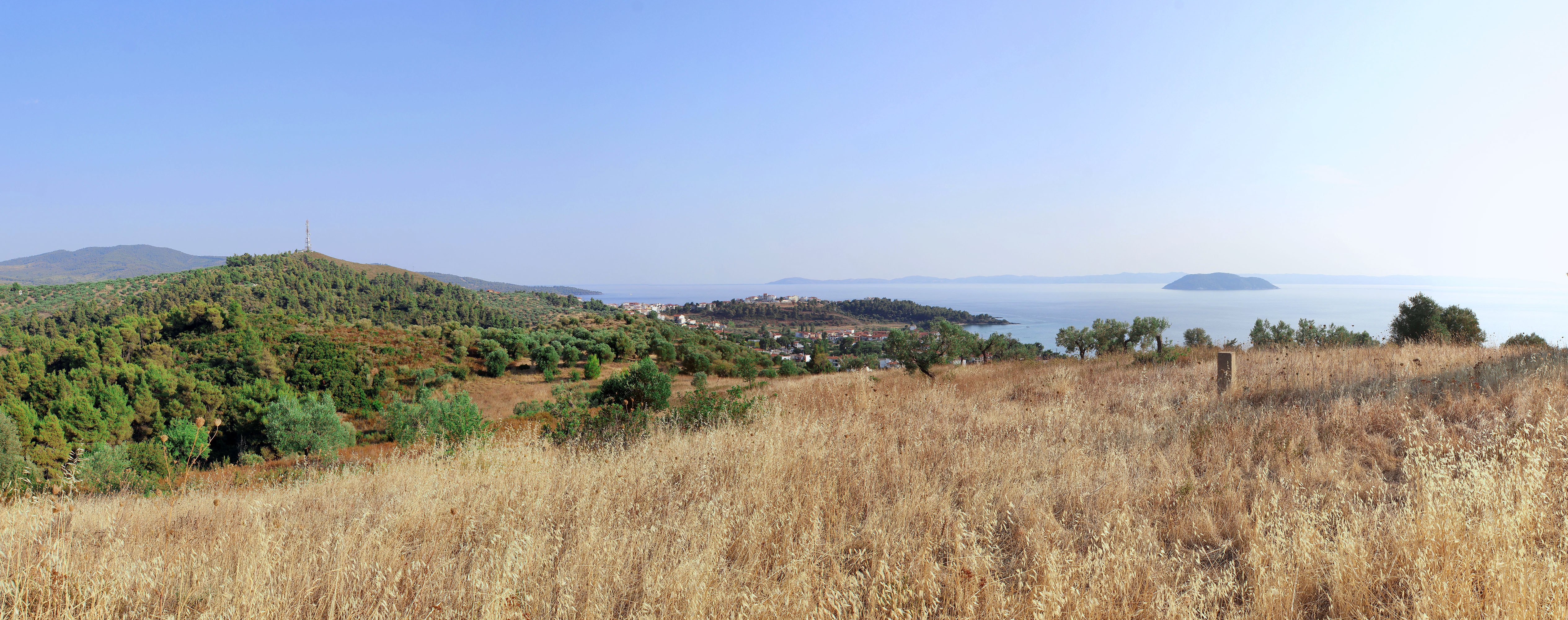 A panorama over Neos Marmaras town and the Kelyfos Island, Greece